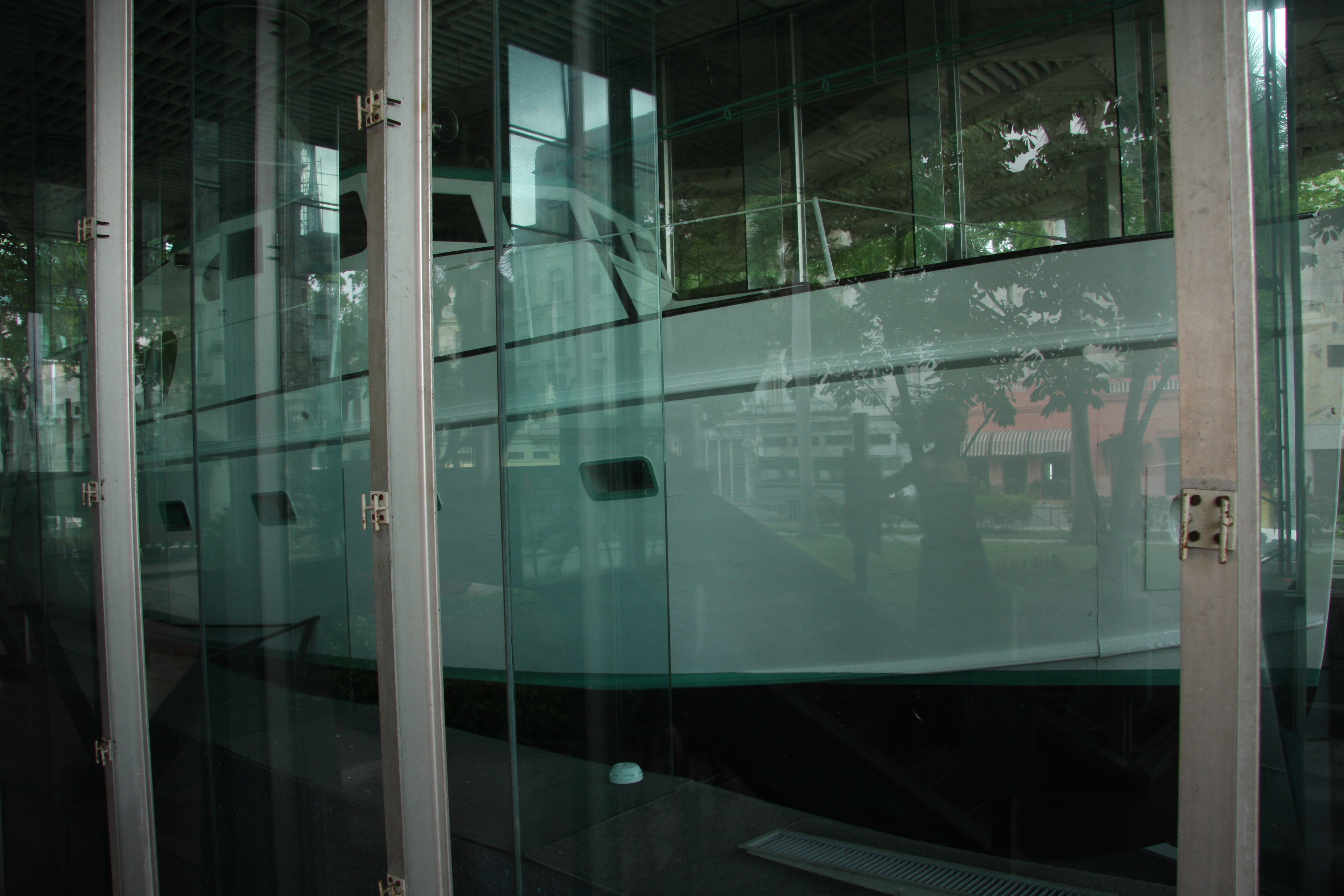 Granma yacht in the Museum of the Revolution, Havana, Cuba)